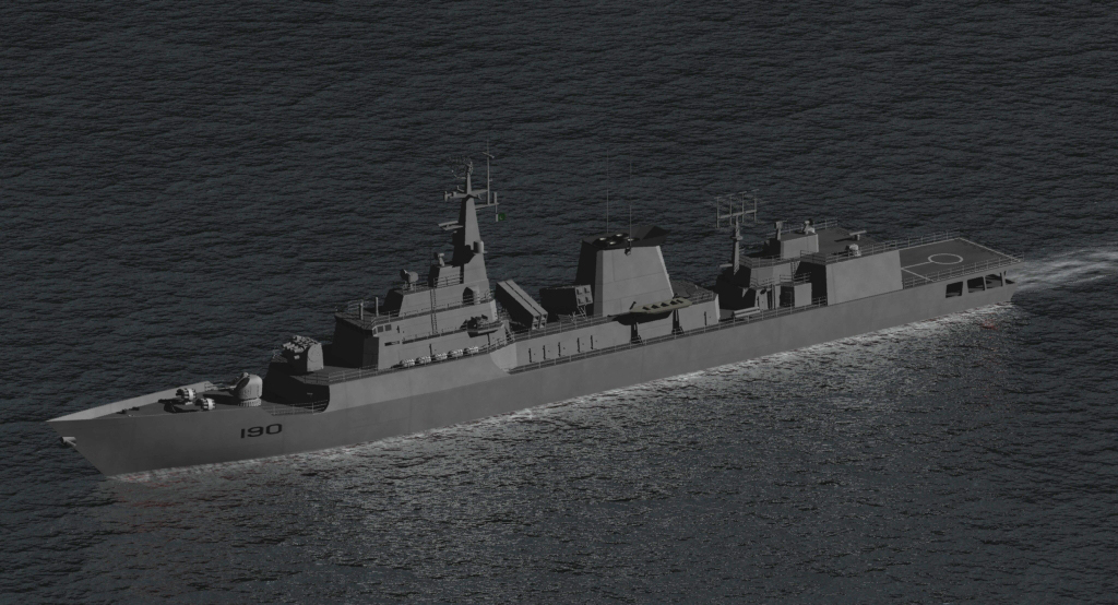 A rendering of a 3D model created using Lightwave 3D v5.5 software.